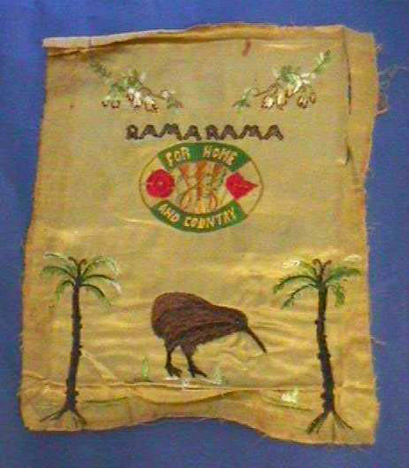 Ramarama Country Women's Institute banner, circa 1933